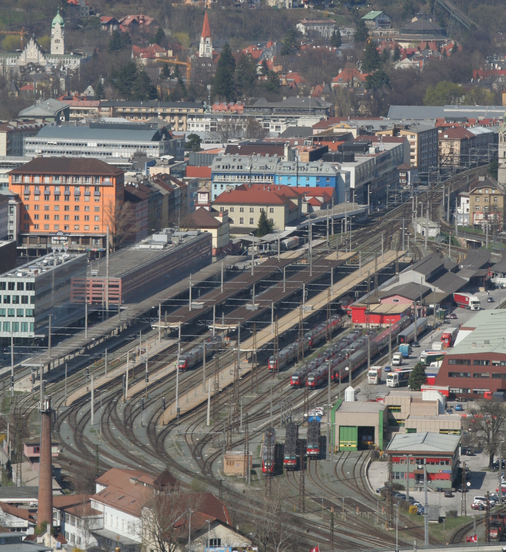 Innsbruck railway station seen from Berg Isel